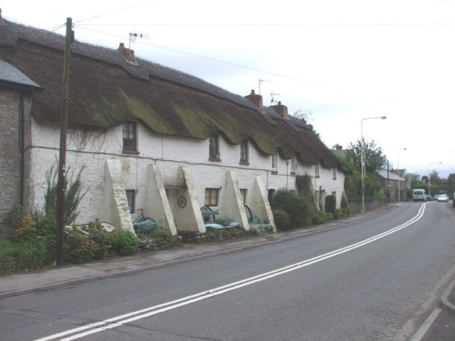 Buttressed cottages, St Nicholas, Vale of Glamorgan